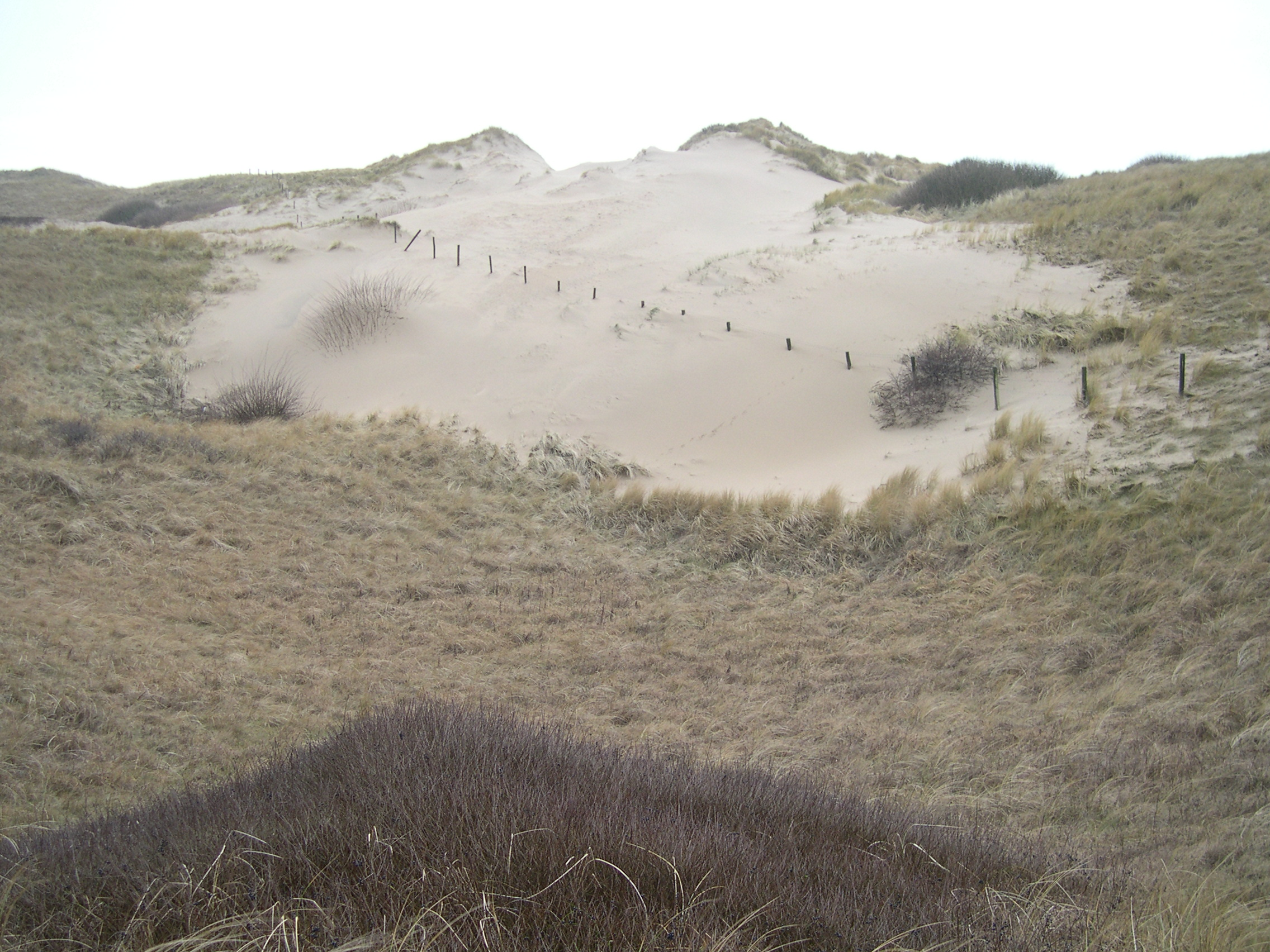 Sand dune in Noordhollands Duinreservaat